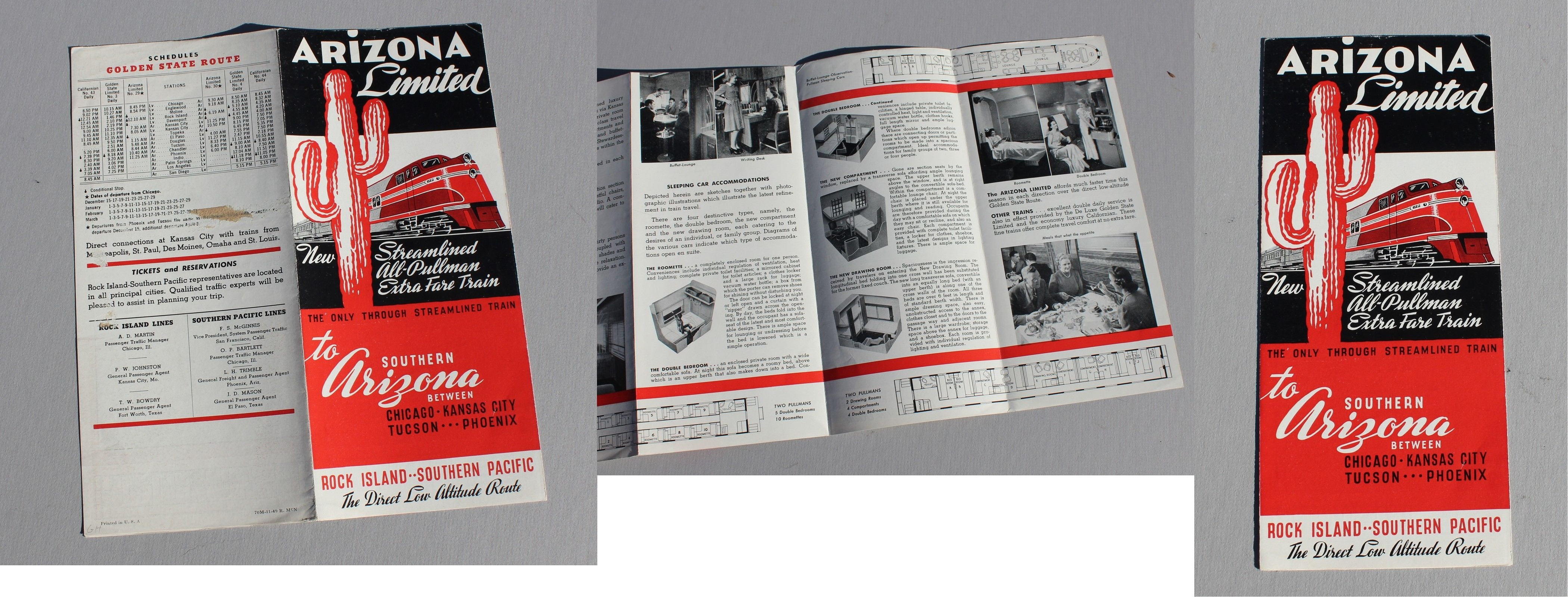 November 1940 brochure for the Rock Island/Southern Pacific train Arizona Limited. Arizona Limited was discontinued in 1942 because of WWII.